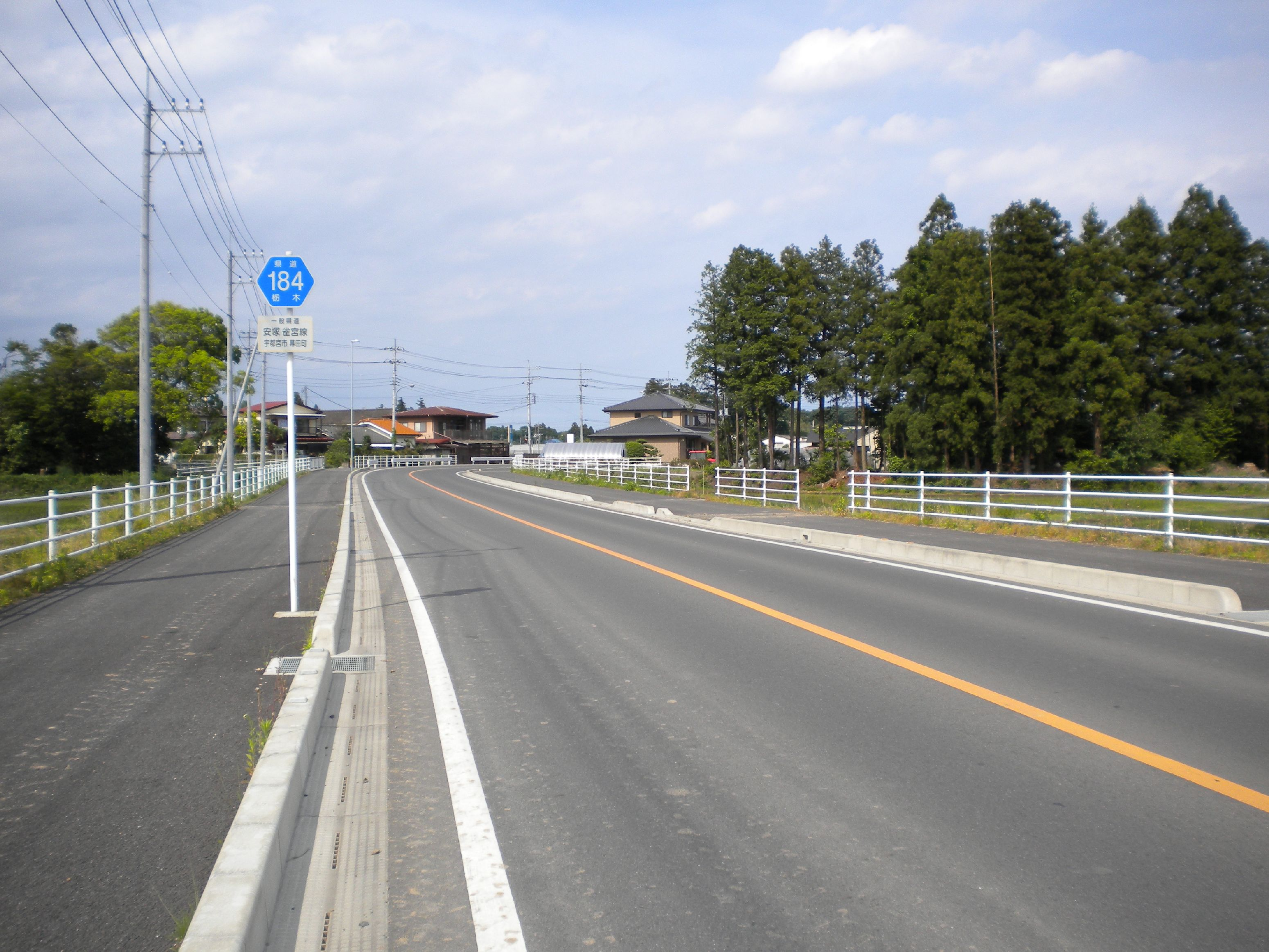 The Tochigi Prefectural Road Route 184 in Makutamachi, Utsunomiya City